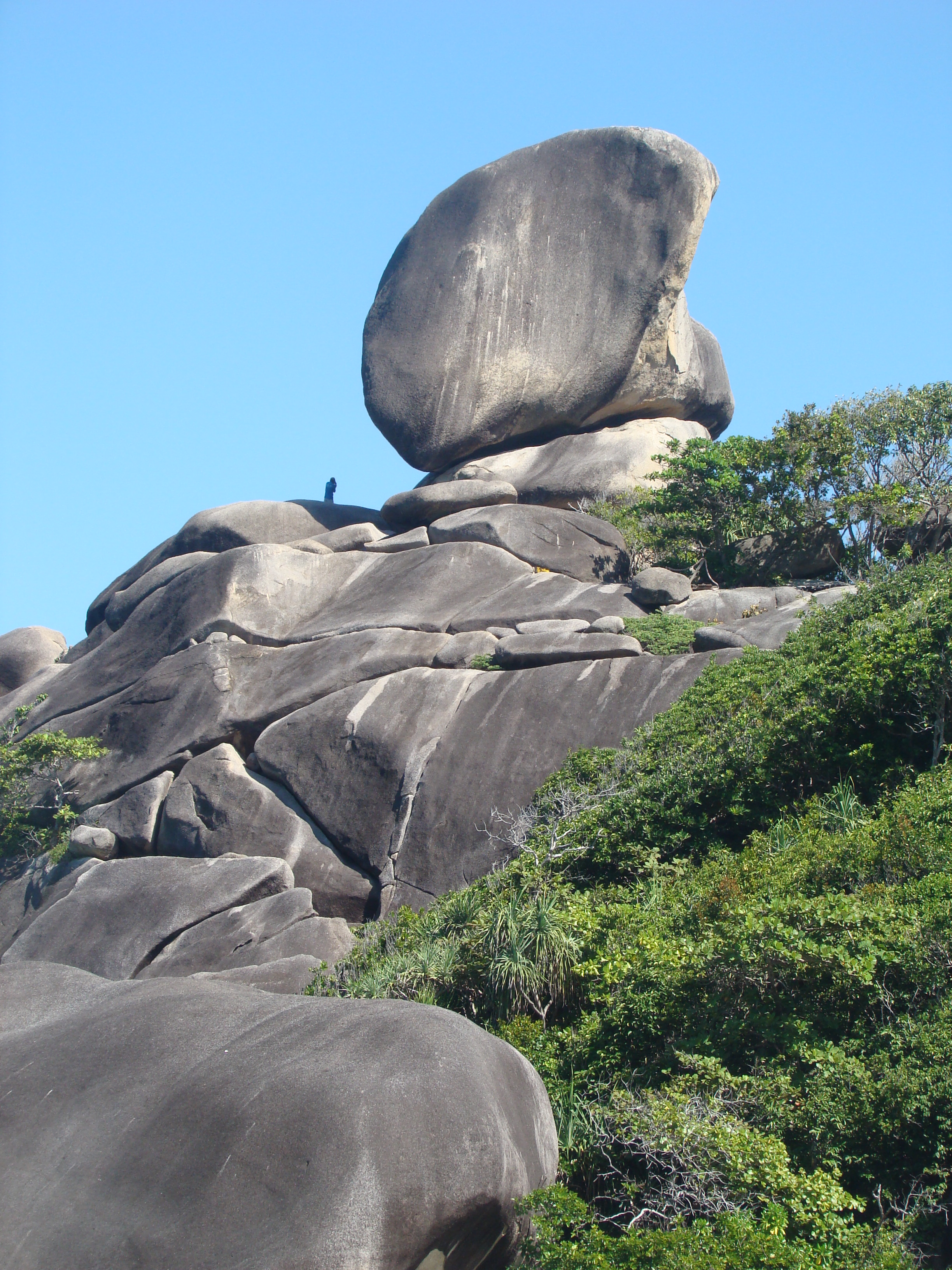 Rock on the coast of island Ko Similan